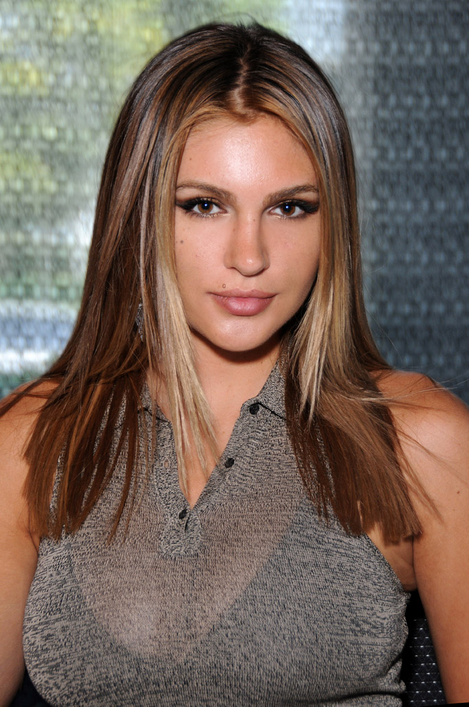 Natalie Pack, Corona, California on July 14, 2013